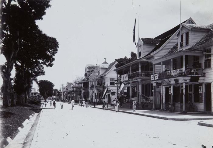 Street view with Antonio da Silva's cycle depot